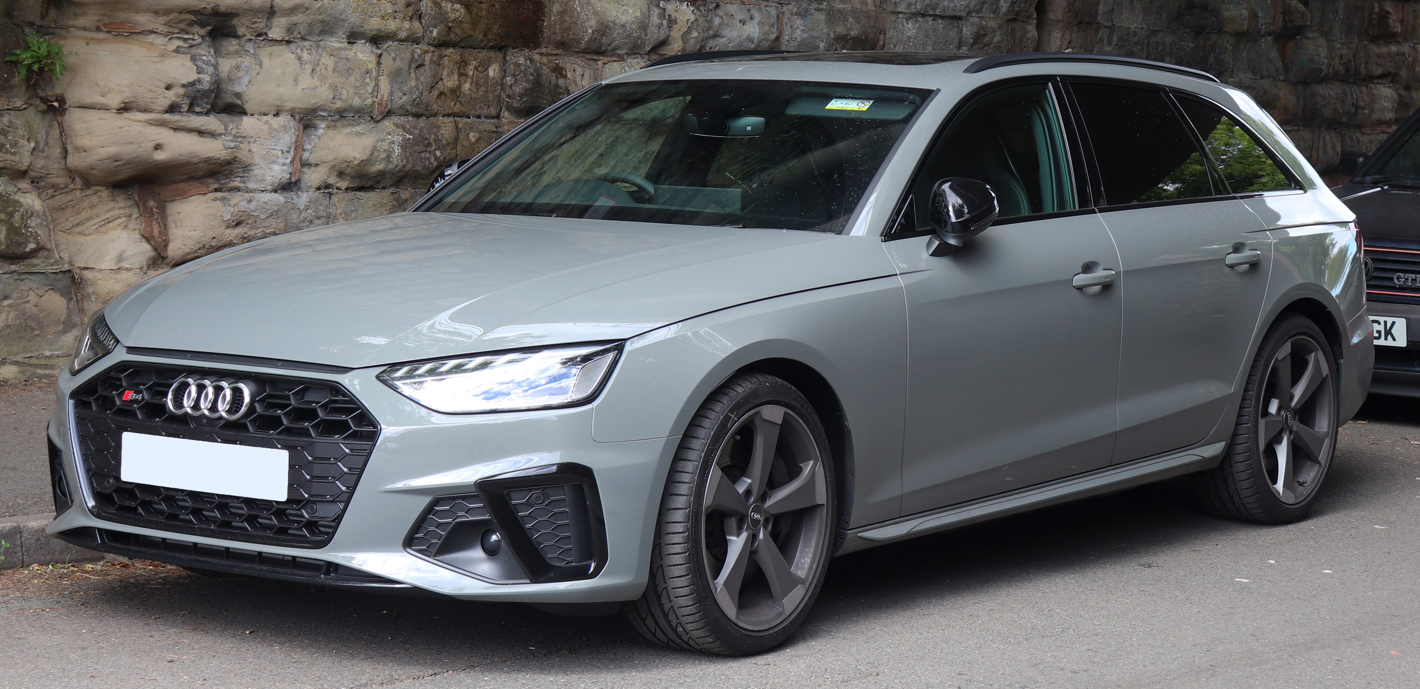 2020 Audi S4 Avant Black Edition TDi Quattro Automatic facelift 3.0 Front Taken in Warwick